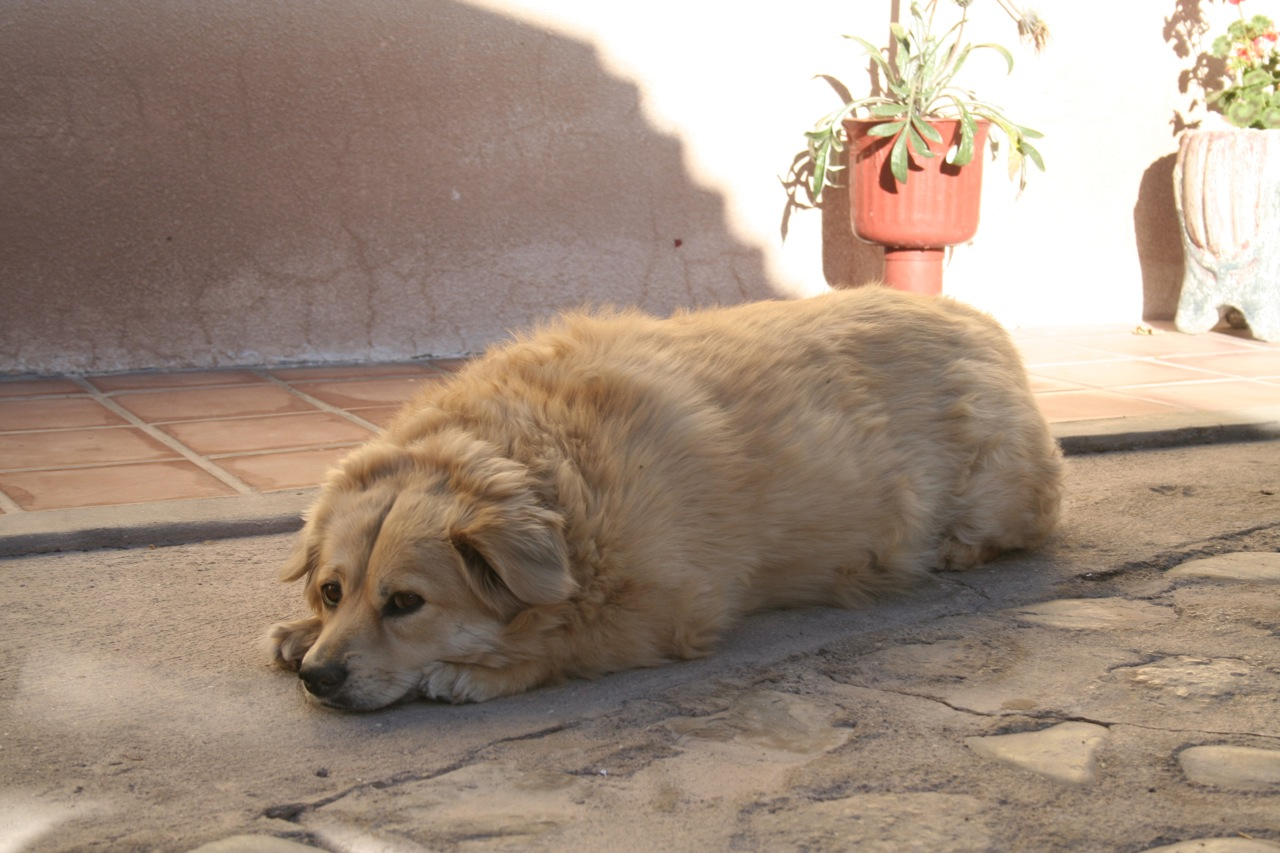 one of the fattest dogs ever seen! It pretty much just lazed around the hostel all day.